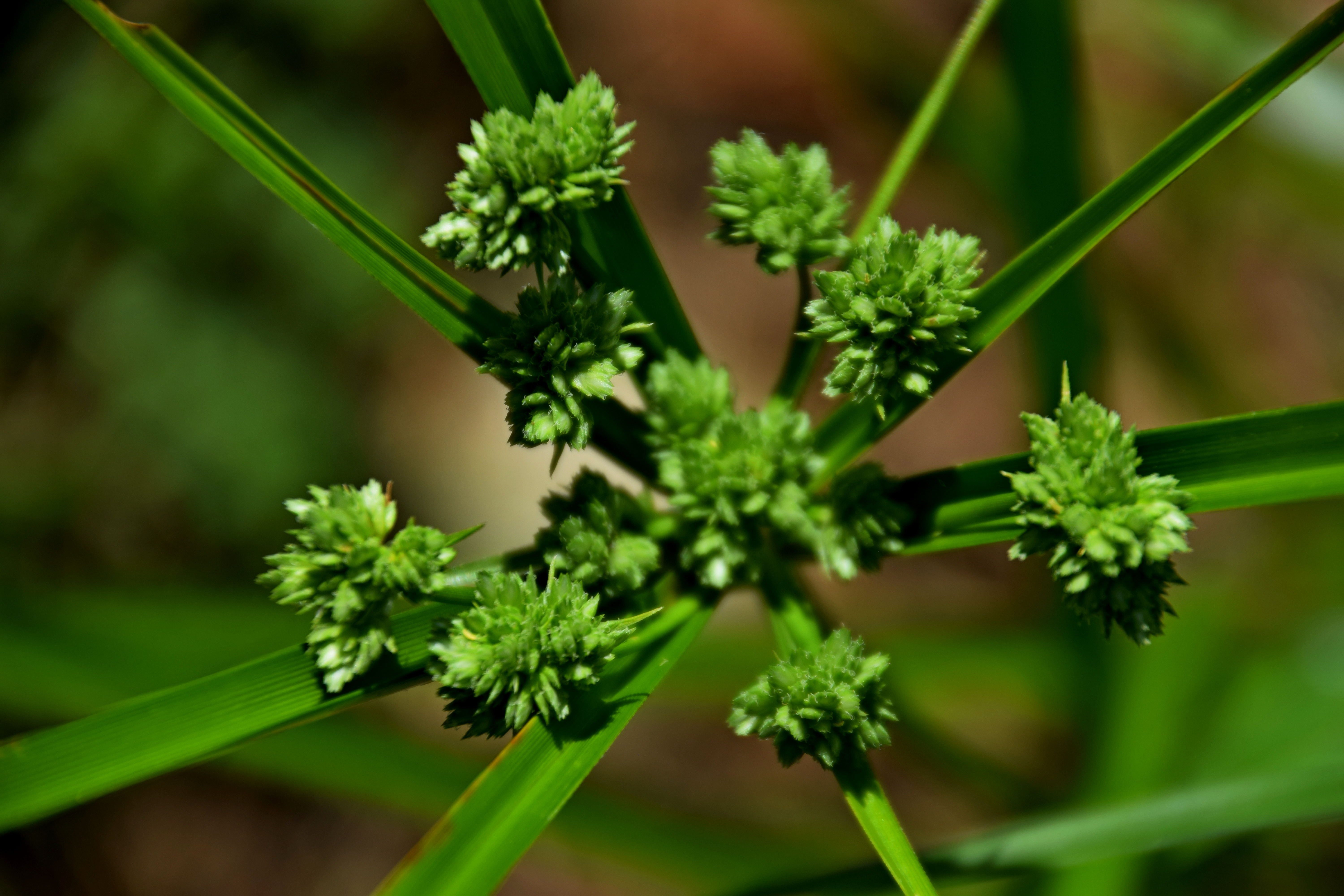 Cyperus papyrus 'Akhenaton' in Jardin des Plantes de Toulouse